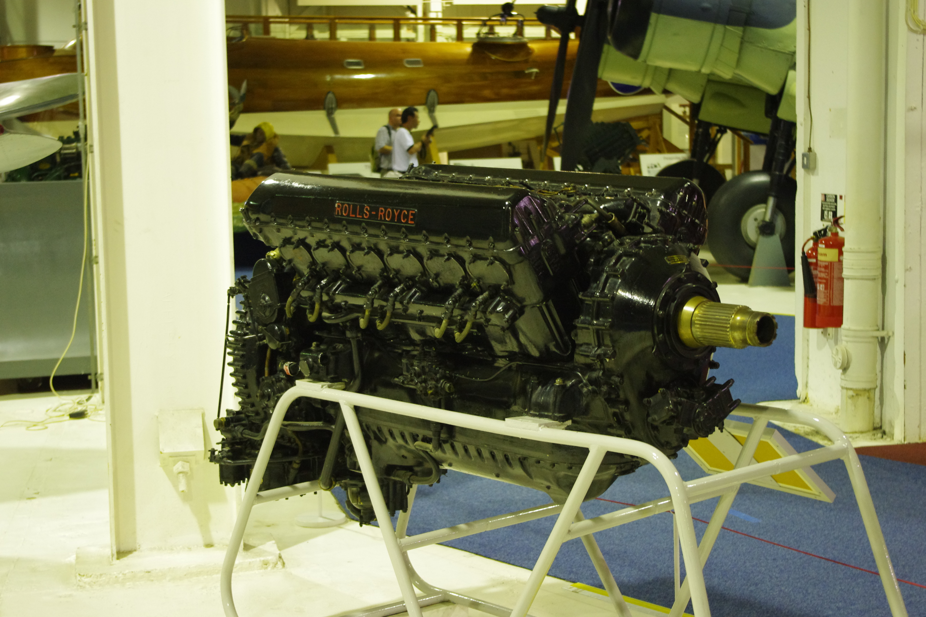 Rolls-Royce Merlin III engine, at the Royal Air Force Museum London.